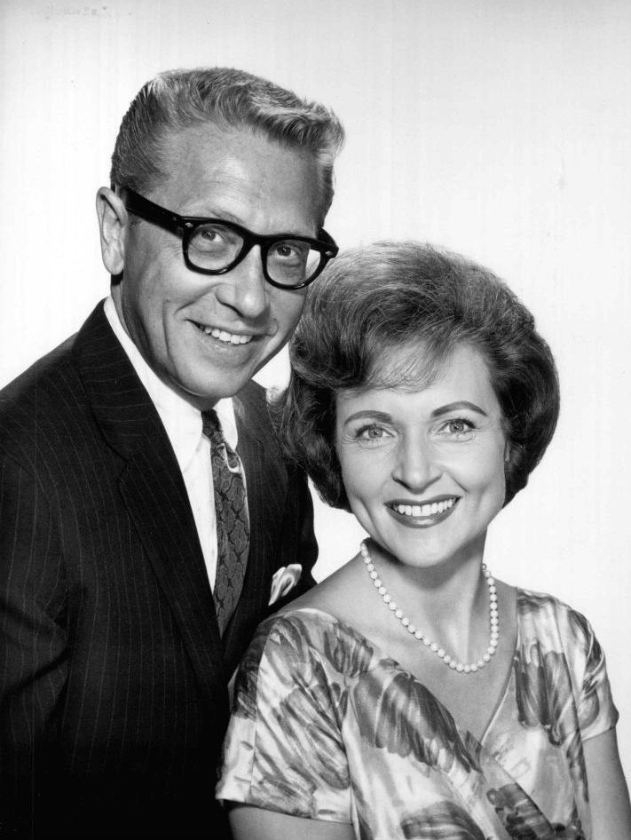 Photo of Allen Ludden and Betty White.